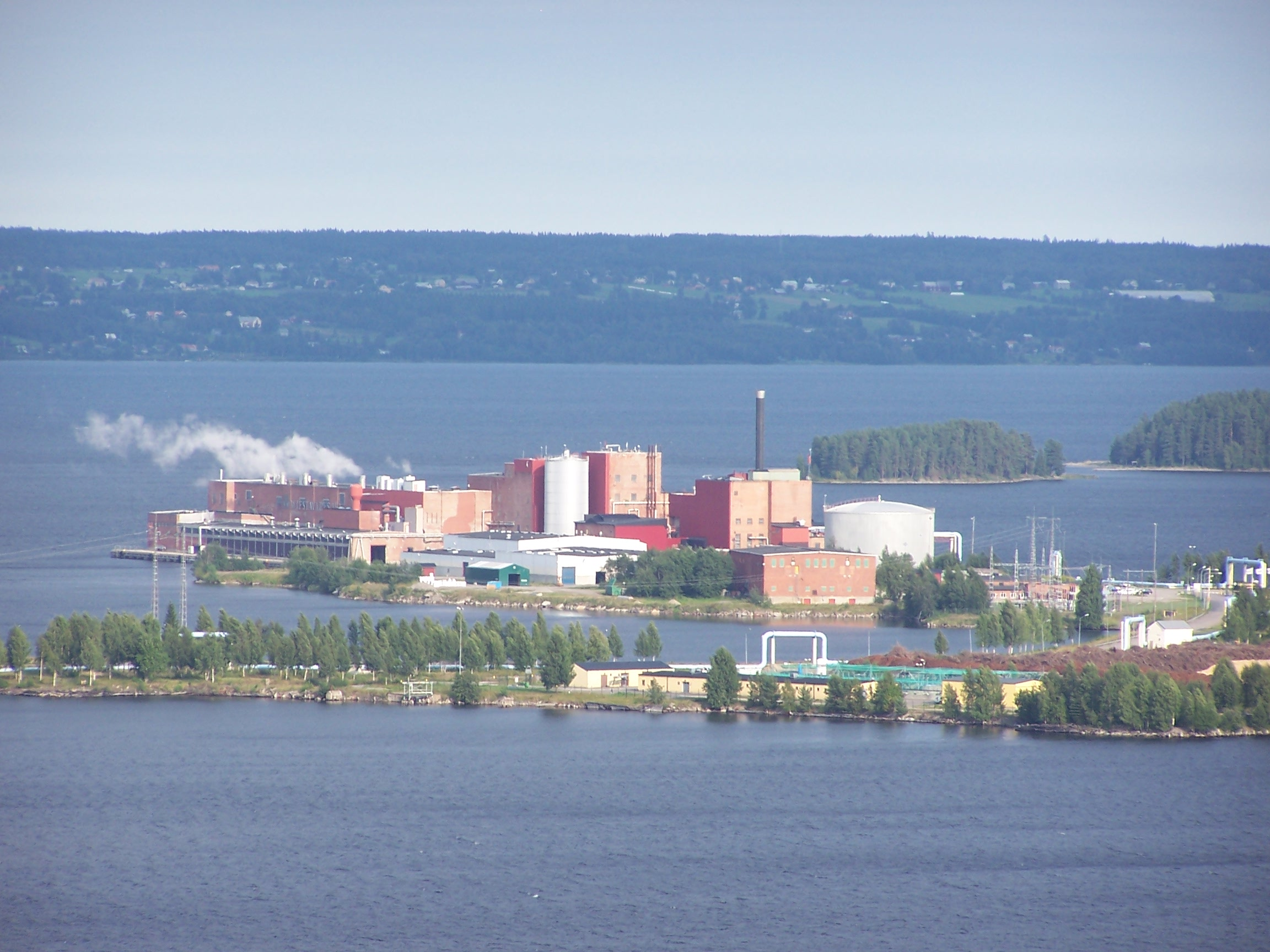 Wifsta pappersbruk (paper-mill), Timrå, Sweden.